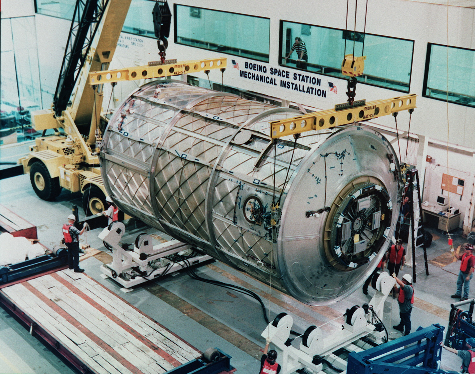 The U.S. Habitation module is lifted by crane during manufacturing at the Marshall Space Flight Center's Space Station Manufacturing Facility in Huntsville, Alabama. The Habitation module will be the living quarters for the crew of the International Space Station when it is launched in 2003. Visible in this photo on the right side of the module is one of two windows. Also visible is a hatch at the end of the module. The habitat module is 28 feet long and 14 feet wide. Fifteen countries led by the U.S. are cooperating to build the International Space Station, the first piece of which is scheduled to be launched in June 1998.